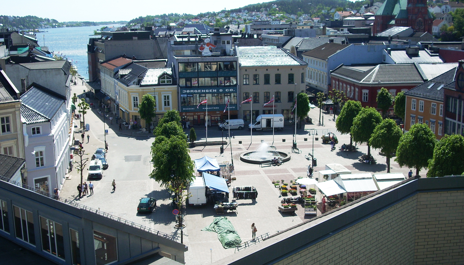 Arendal market place, Norway